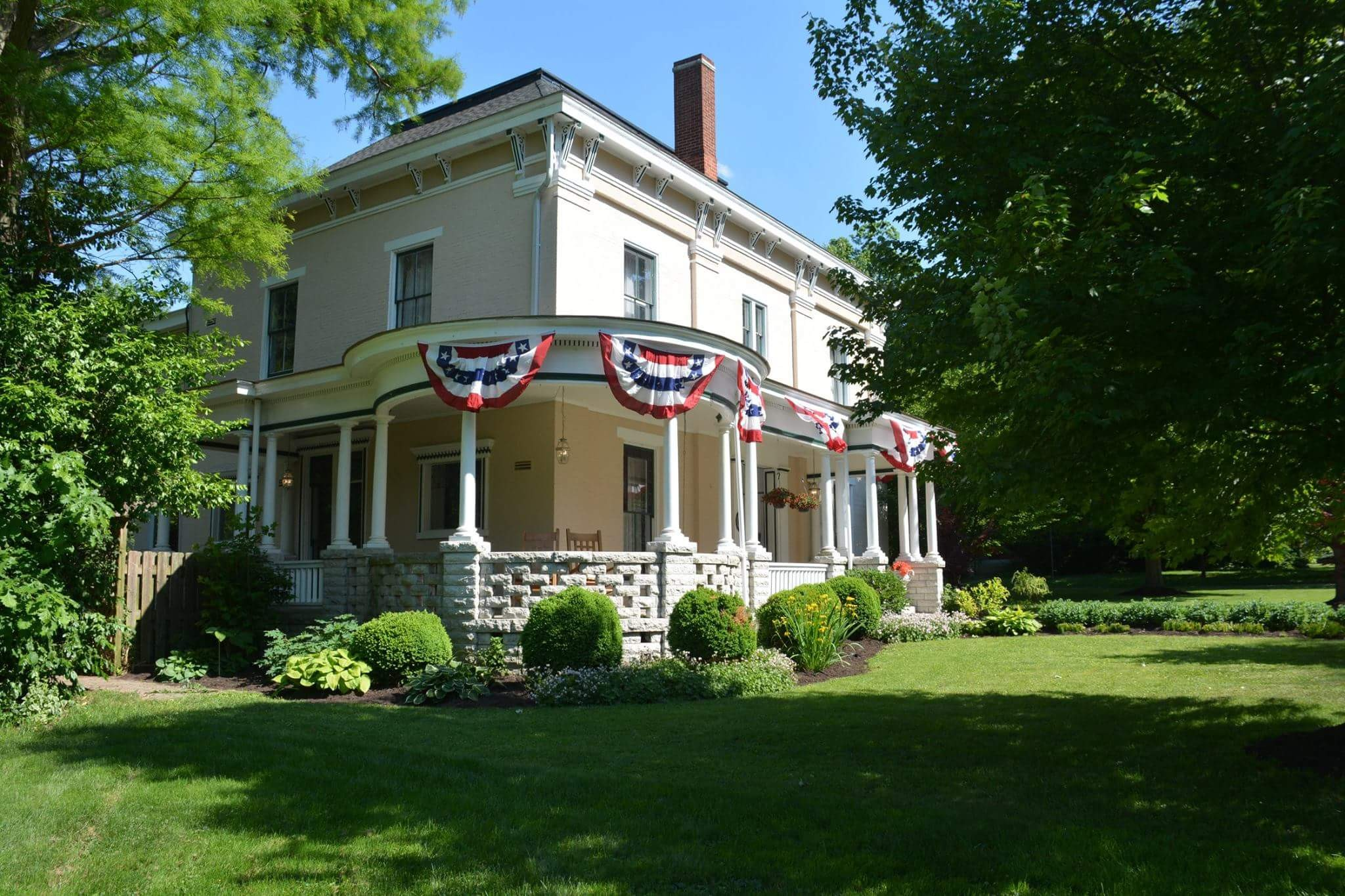 Built By John Dey for his daughter and son-in-law, William F Parshall, in 1848. Judge James Allen Runyan purchased and remodeled in 1885. Visited by various United Sates Senators, Congressman and Commissioners. Resides in Floraville Historic District, Lebanon, Ohio.